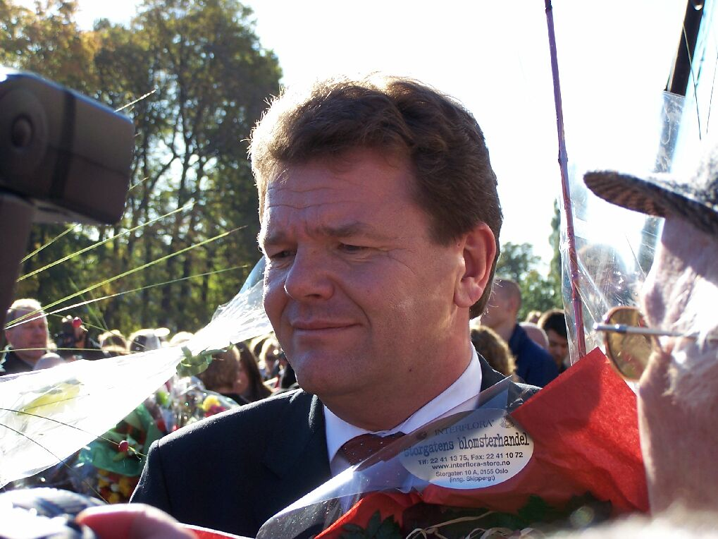 Øystein Djupedal, Norwegian Minister of Knowledge 2005-2007